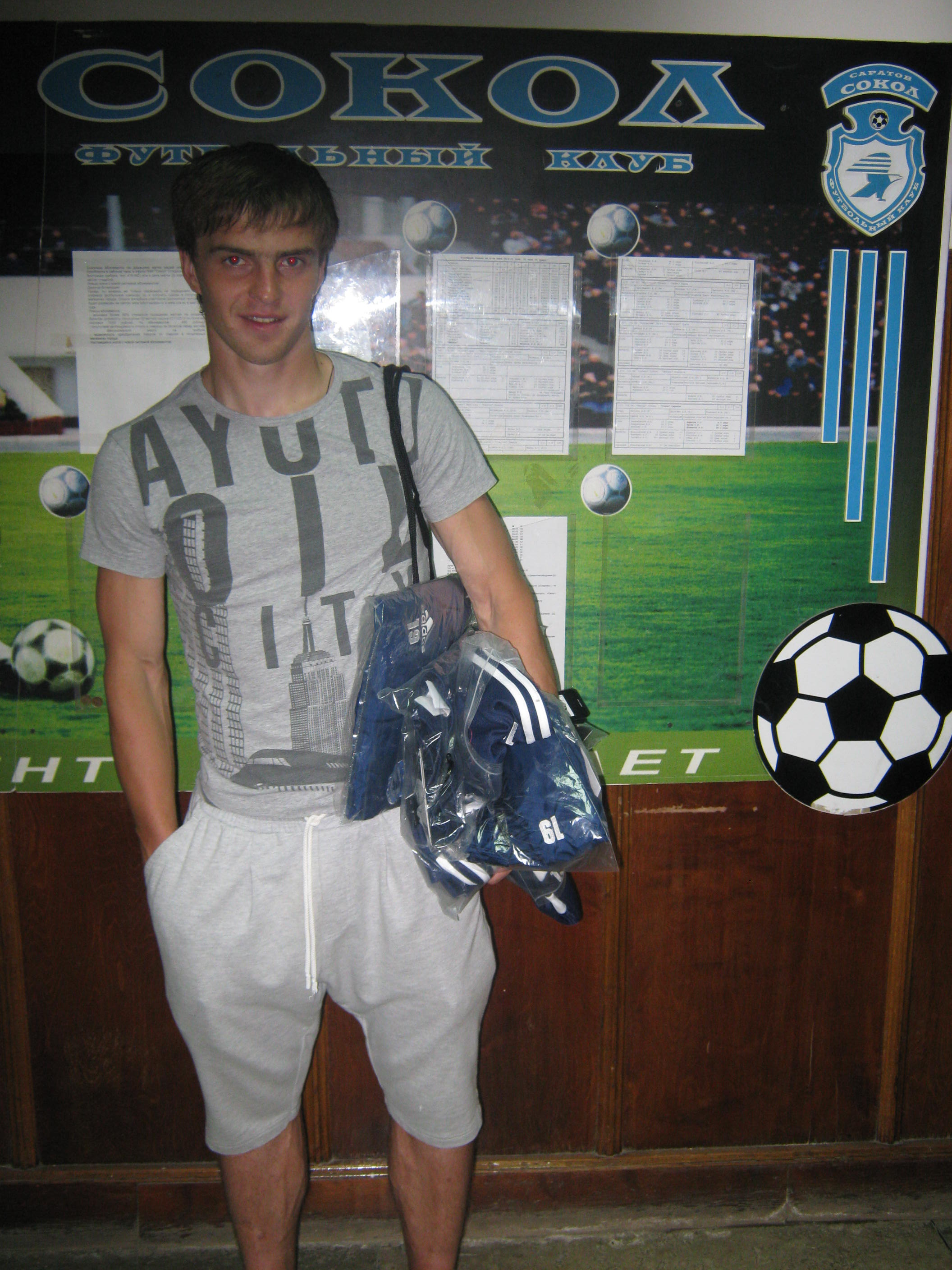 Konstantin Gennadyevich Garbuz, football player of PFC "Sokol" Saratov.